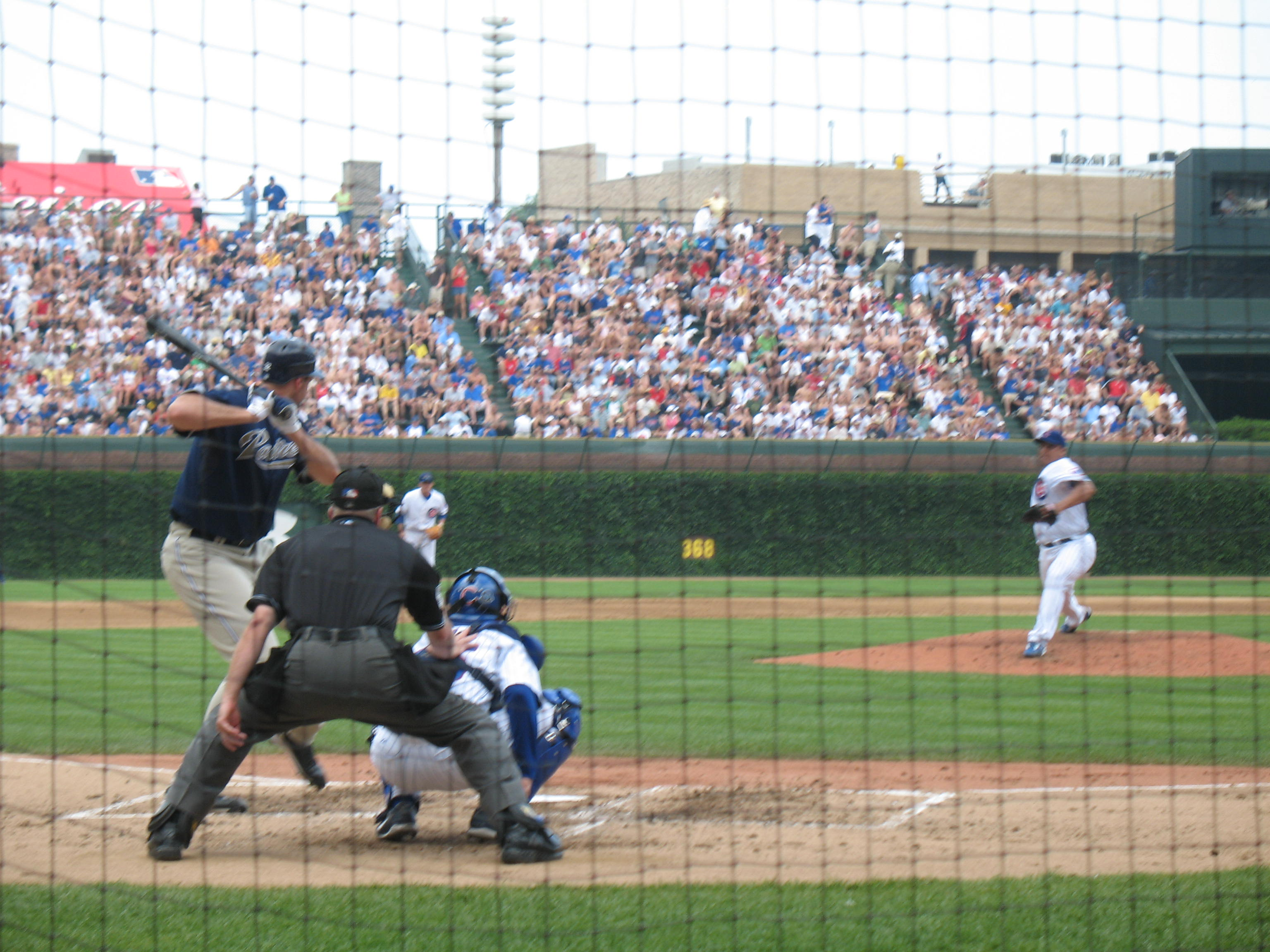 Description Chris Young DateJune 16, 2007SourceSelf-photographedAuthorUser:TonyTheTigerPermission (Reusing this file) I, Antonio Vernon, am the photographer and copyright holder. I release this photo for all fair uses. 13:22, 17 June 2007 . . TonyTheTiger . . 3072×2304 (724 KB) Chris Young